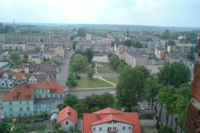 Poland, Czluchów - city view from castle's tower.